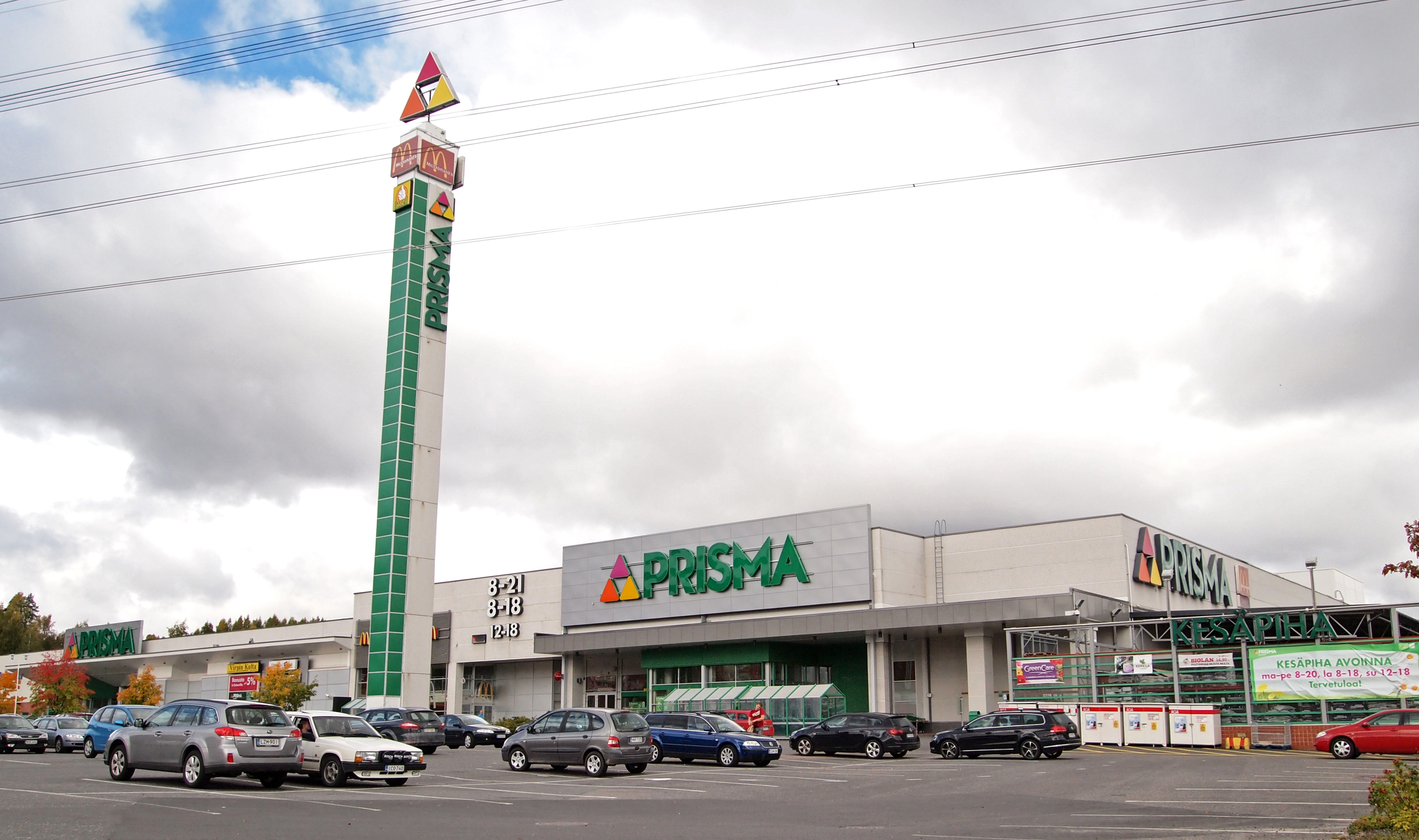 Prisma store in Keljo district, Jyväskylä. This photograph was taken with a Olympus E-PL1.